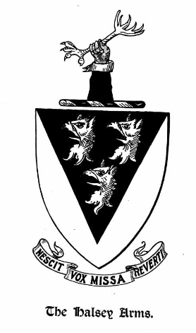 Coat of Arms of Thomas Halsey of Hertfordshire from Halsey, Jacob Lafayette (1895). Thomas Halsey of Hertfordshire, England and Southampton, Long Island, 1591-1679, with his American Descendants to the Eighth and Ninth Generations. Morristown, NJ: Printed at "The Jerseyman" Office.